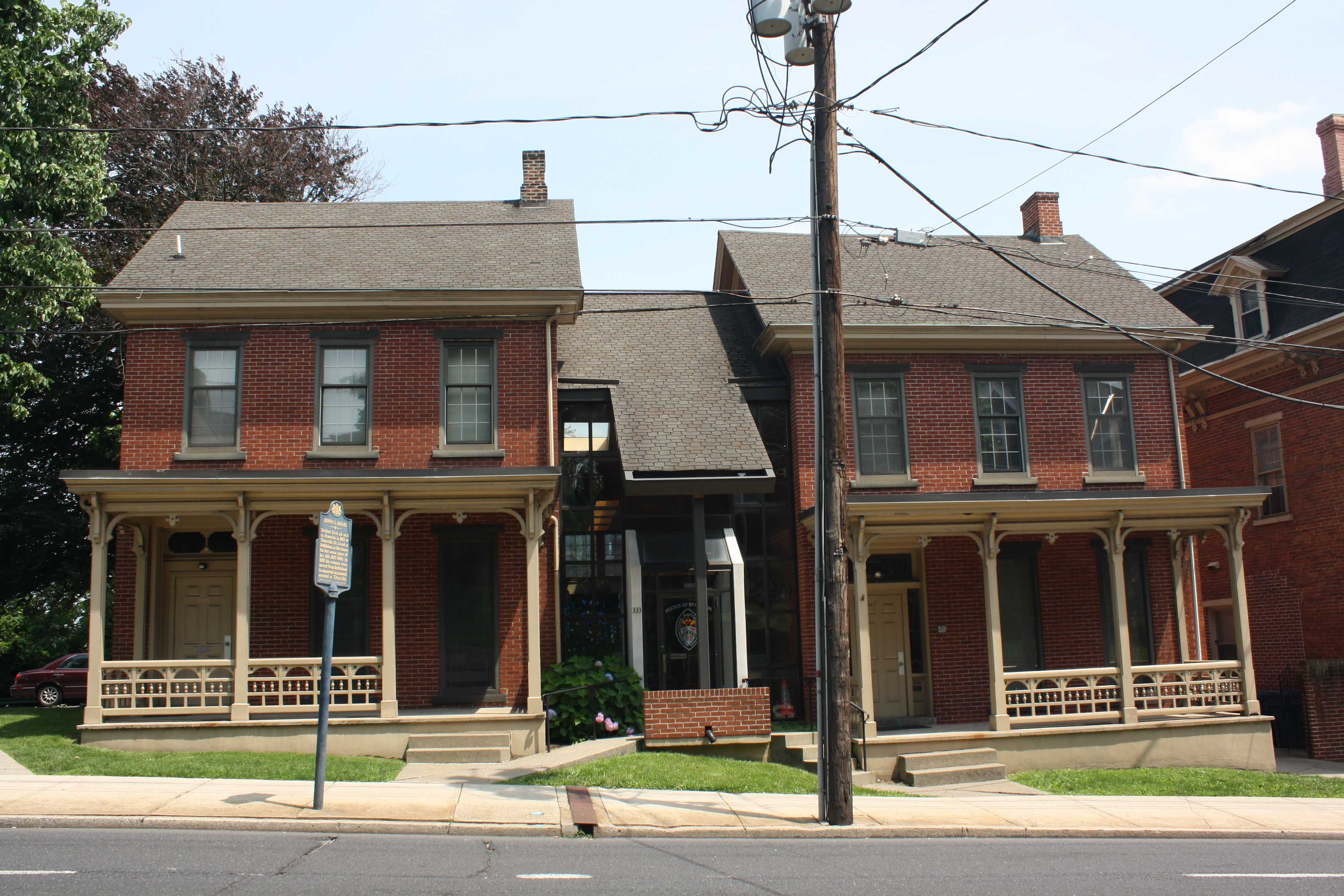 House of Edwin L. Drake in Fountain Hill (Fountain Hill Historic District, a national historic district located at Bethlehem, Lehigh County and Northampton County, Pennsylvania) 331/333 Wyandotte St.